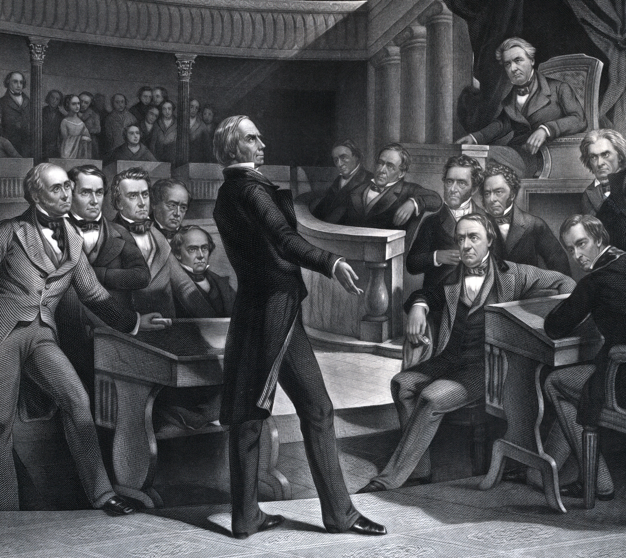 Henry Clay addressing the U.S. Senate, Daniel Webster is seated to the left of Clay, John C. Calhoun is to the left of the Speaker's chair